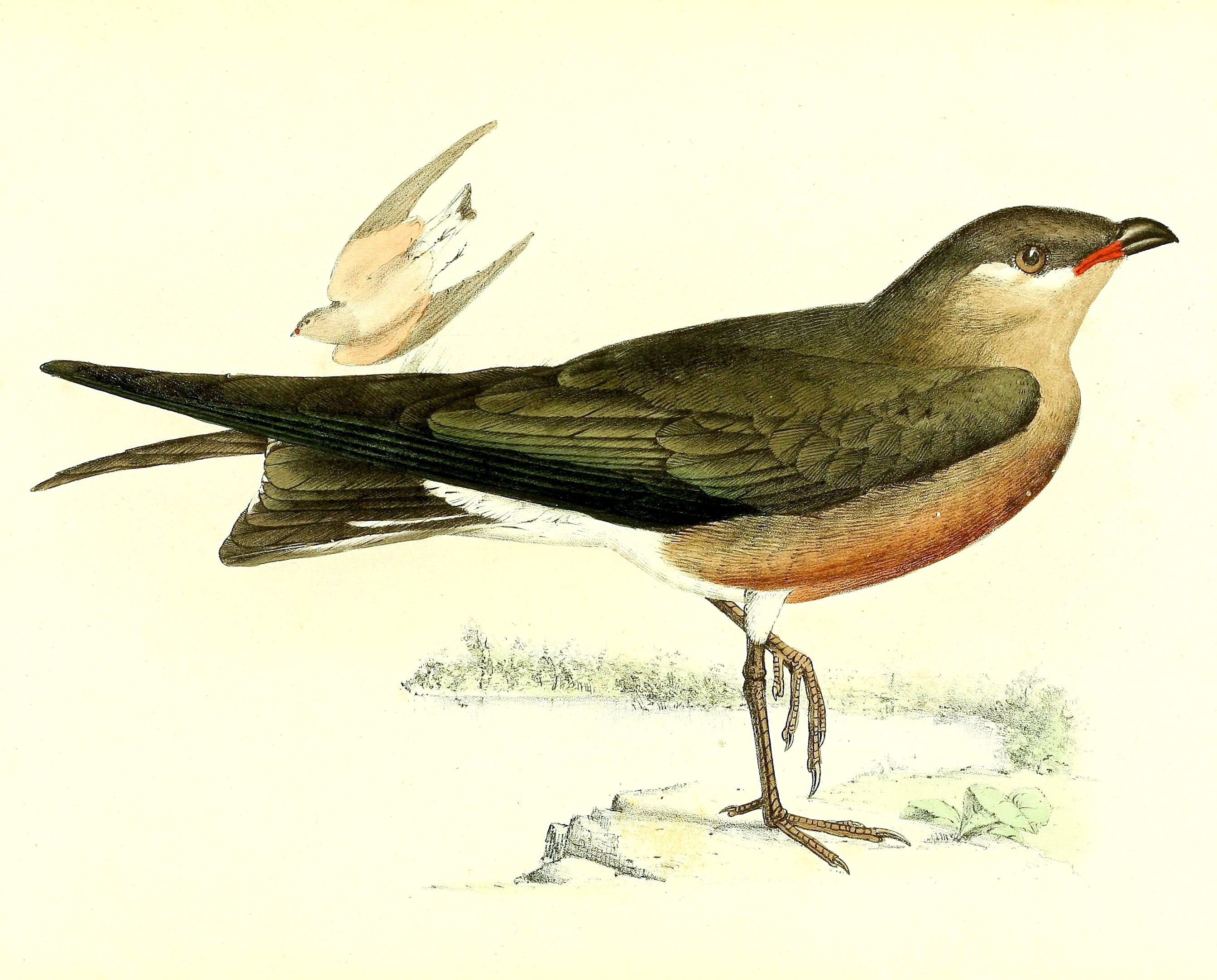 Glareola ocularis (Madagascar Pratincole), adult